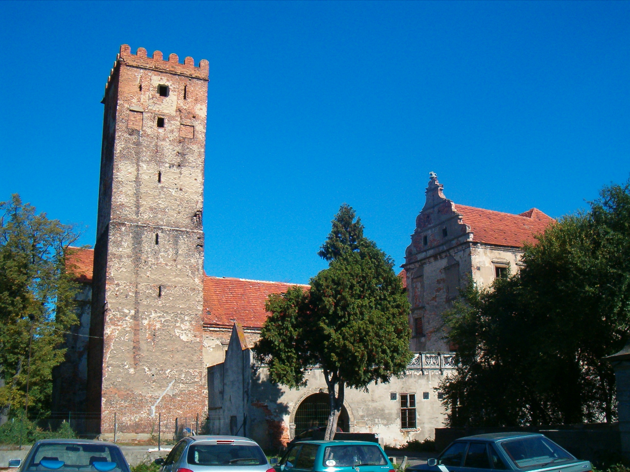 Ruins of a castle in Prochowice, Poland